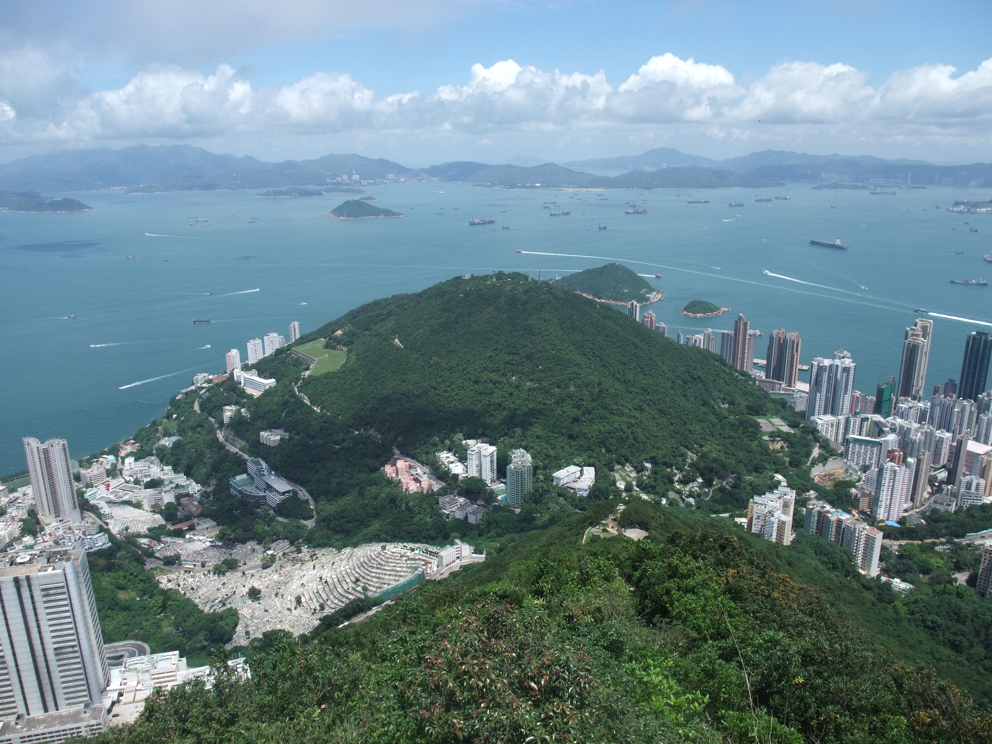 Photo of Mount Davis